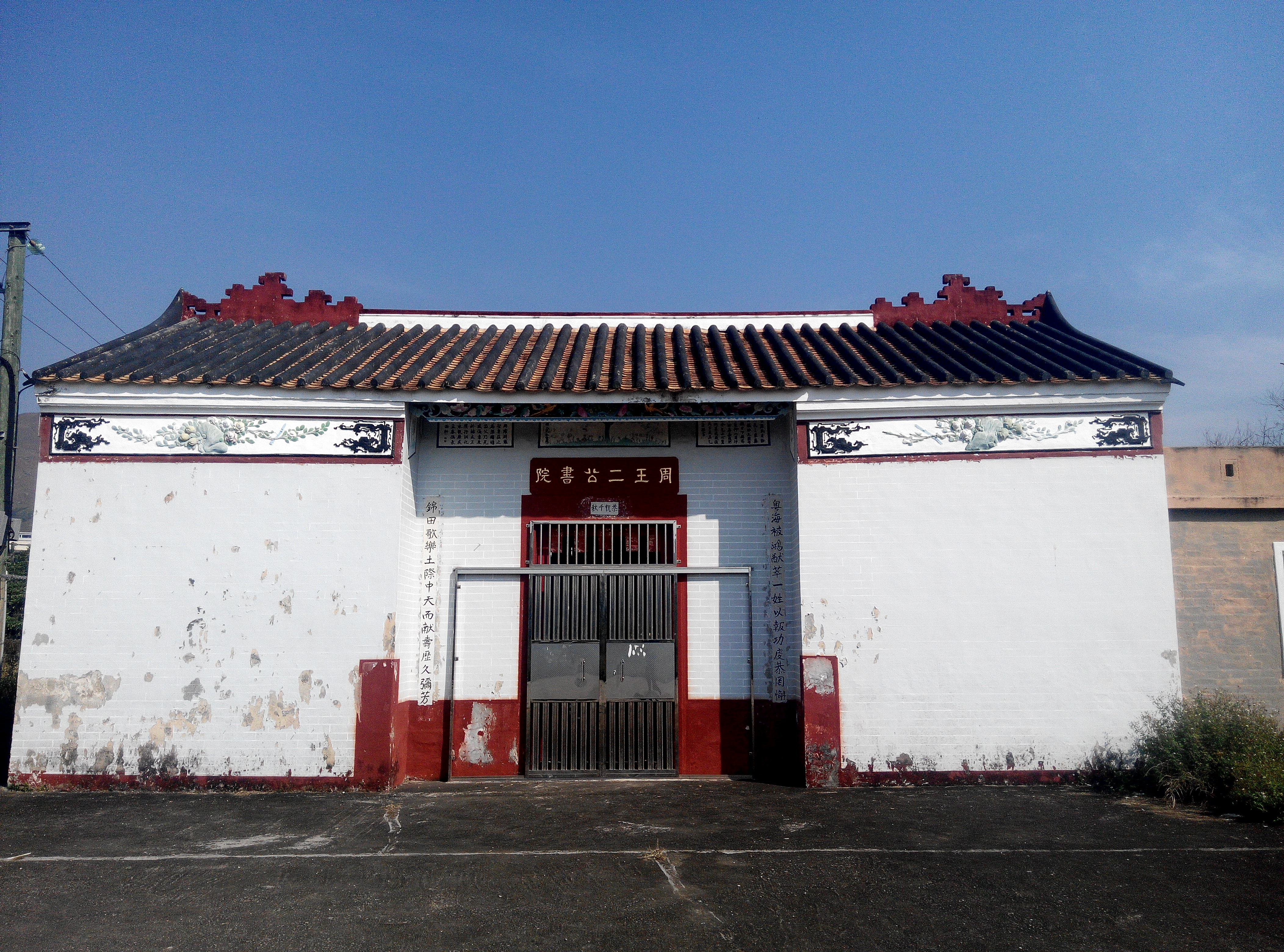 Kam Tin, Chou Wong Yi Kung Study Hall